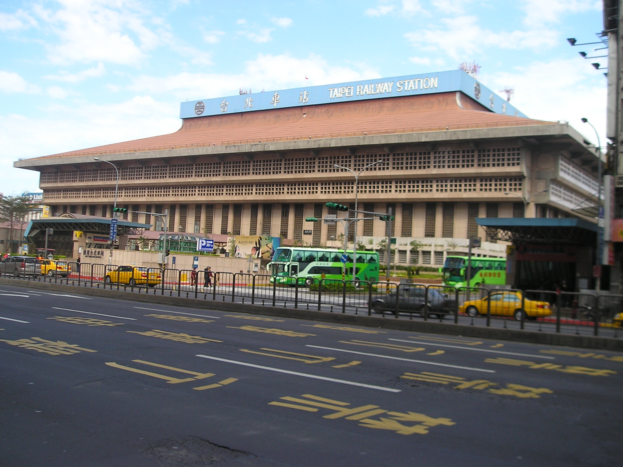 Taipei Station